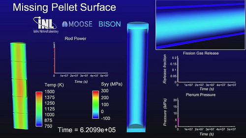 Nuclear reactor operators can expand safety margins with more precise information about how materials behave inside operating reactors. INL's new simulation platform makes such studies easier & more informative by letting researchers "plug-n-play" their mathematical models, skipping years of computer code development.